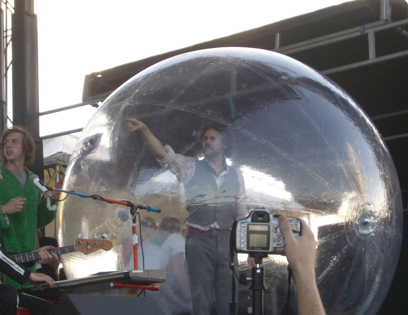 Wayne Coyne from The Flaming Lips, Langerado Music Festival 2006, Markham Park, Sunrise, Florida.